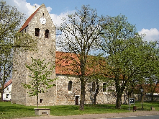 Church in Gommern-Nedlitz (Saxony-Anhalt)